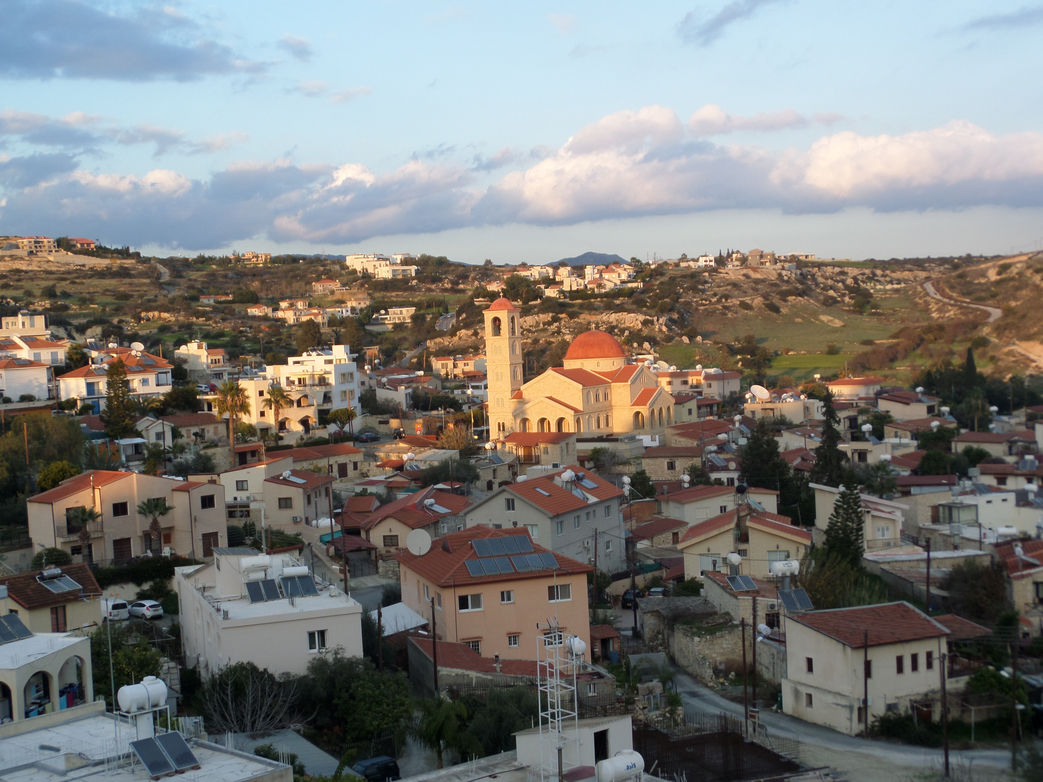 View of the center of Agios Tychonas.